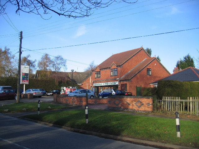 Crossroads Service Station, Cheswick Green. On the edge of the 1960s development in the NE part of this square.